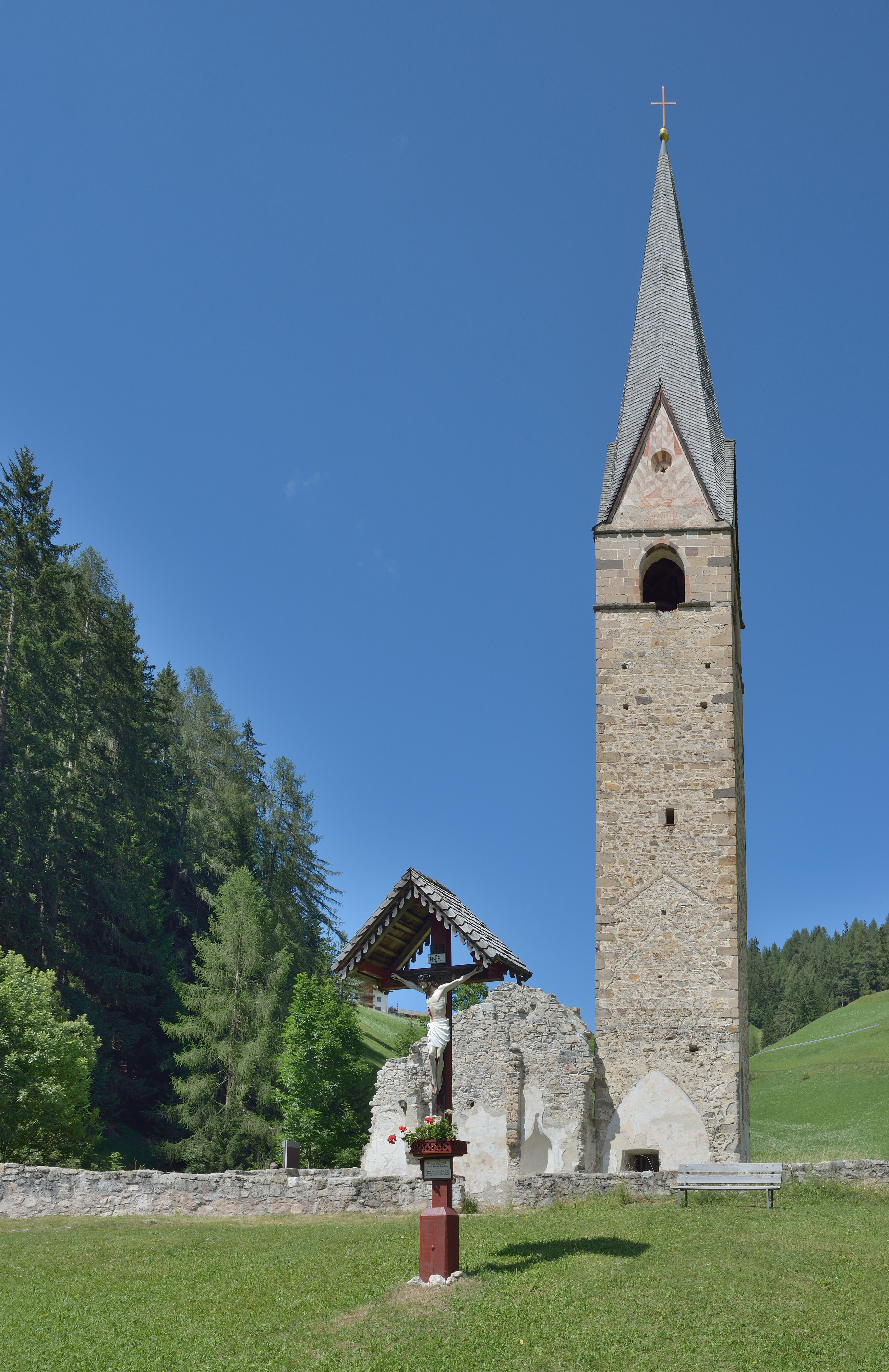 Old parish church in La Val - demolished partially in 1930